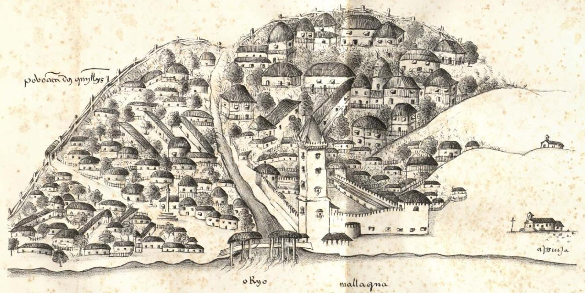 A view over Malacca shortly after it's conquest by the Portuguese, as drawn by Gaspar Correia in his 'Lendas da Índia', written in the 16th century.